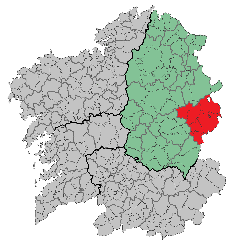 Region of Galicia (Spain) Based in: Image:Location of Betanzos.png Source: Designed by Leoplus. Original picture, designed by Caiser over a work made by Alyssalover.